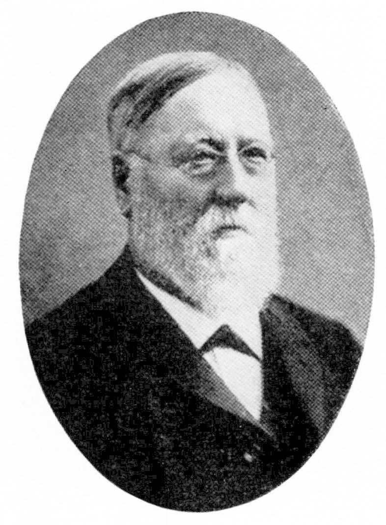 Swedish publisher Sigfrid Flodin (1827-1909)